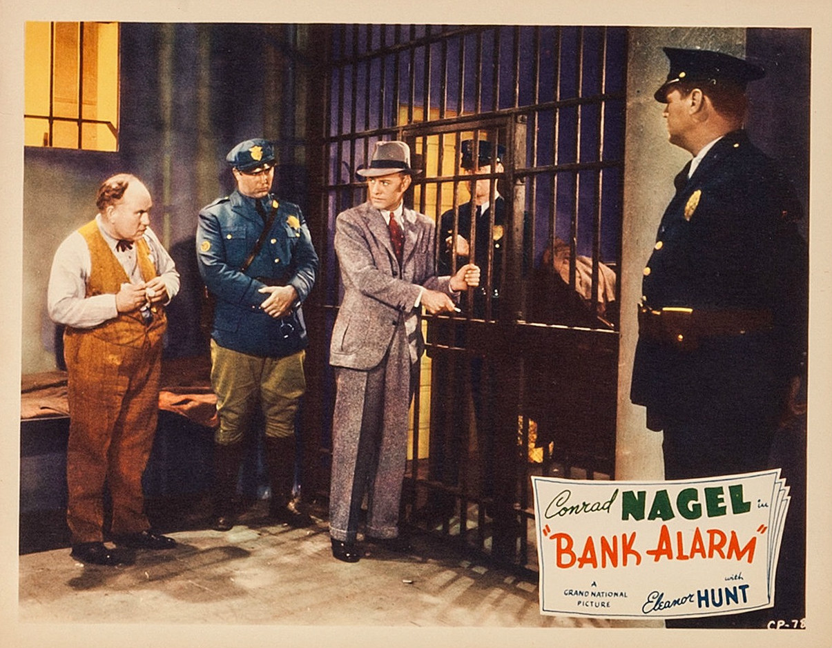 Lobby card from the American crime drama film Bank Alarm (1937).